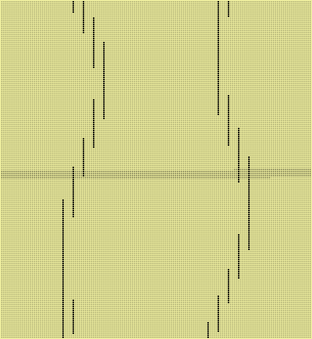 The chart plots each inferior conjunction from -18109 to 21988. If a transit occurs, a dark circle is plotted, otherwise a pale circle is plotted to indicate no transit. The millennium from 2001 to 3000 is highlighted. Each row has 152 inferior conjunctions, which is the number of inferior conjunctions that occur in one transit cycle of 243 years. The periodicity of the transits is apparent. Data source for the transit dates is the "Quarter Million Year Canon of Solar System Transits" at